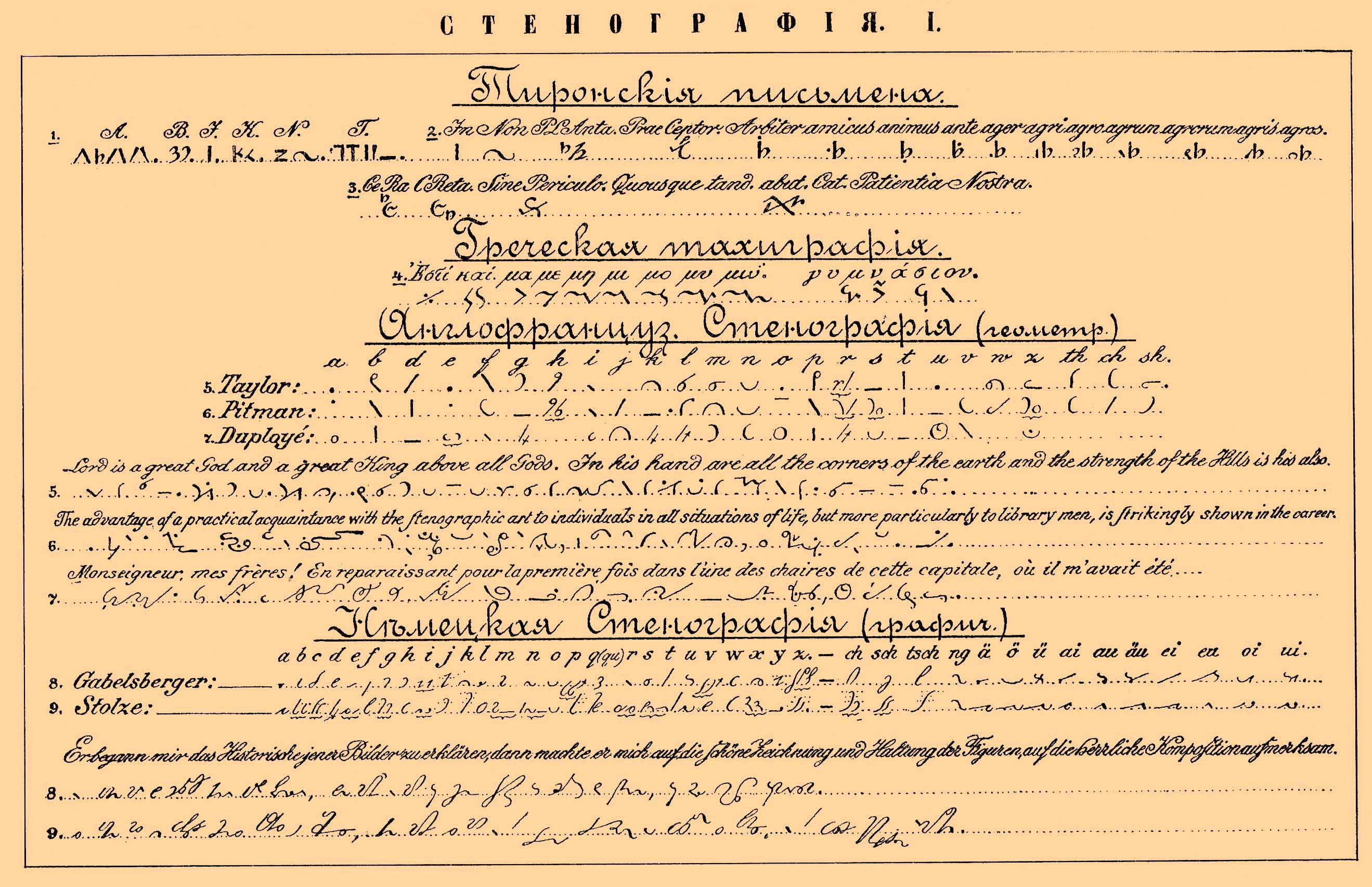 Illustration from Brockhaus and Efron Encyclopedic Dictionary(1890—1907)